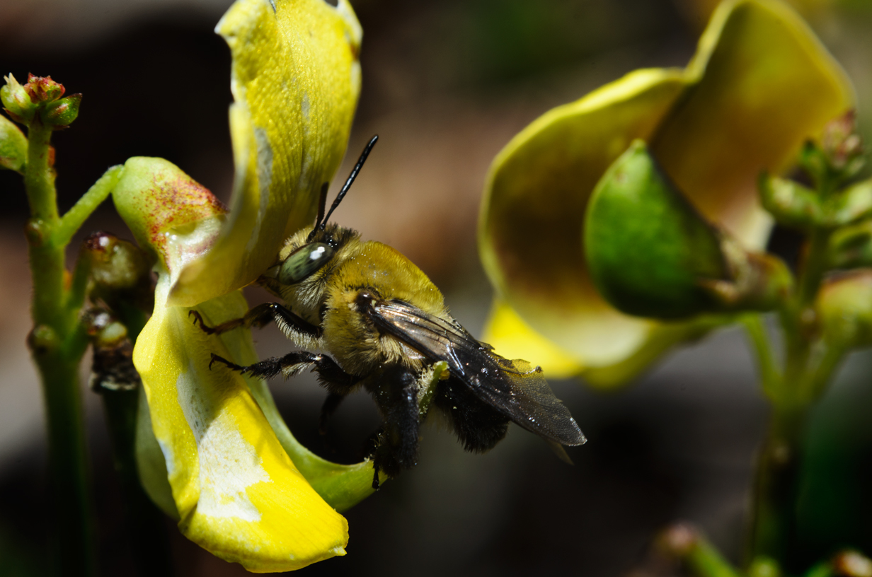 Centridini Bee on a Cow Pea, West Lake Park, Hollywood Fl.